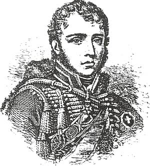 French general Francois Lallemand (1774-1839)